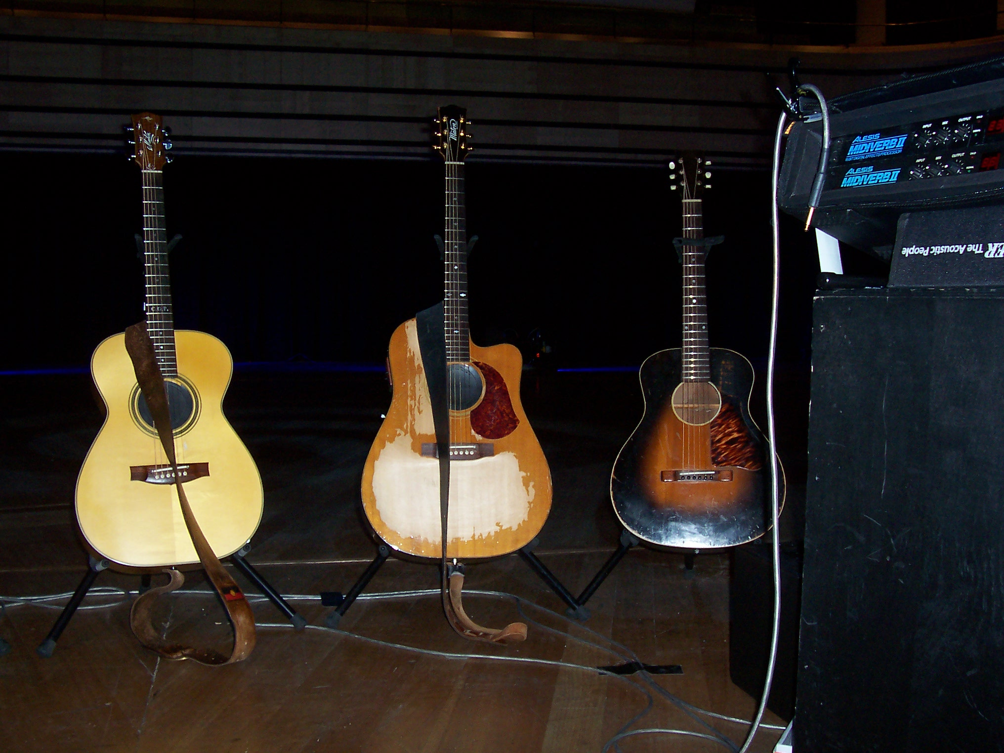 Tommy Emmanuel Australian guitarist, Palace of Arts, Budapest, Hungary, 11.15.2009